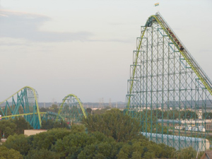 Wild Thing - a Chance Morgan steel hypercoaster located at Valleyfair Amusement Park in Shakopee, MN.